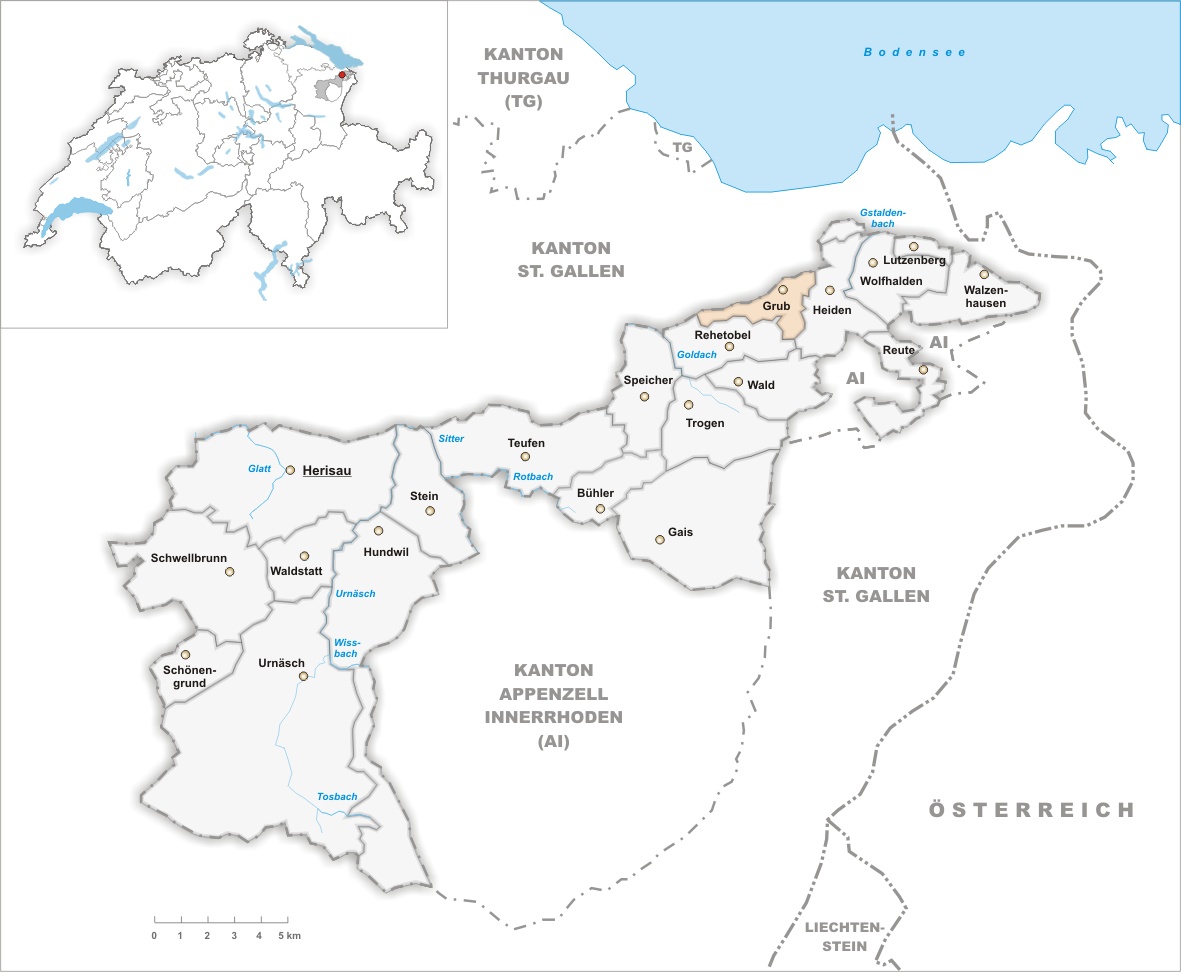 Municipality of Grub